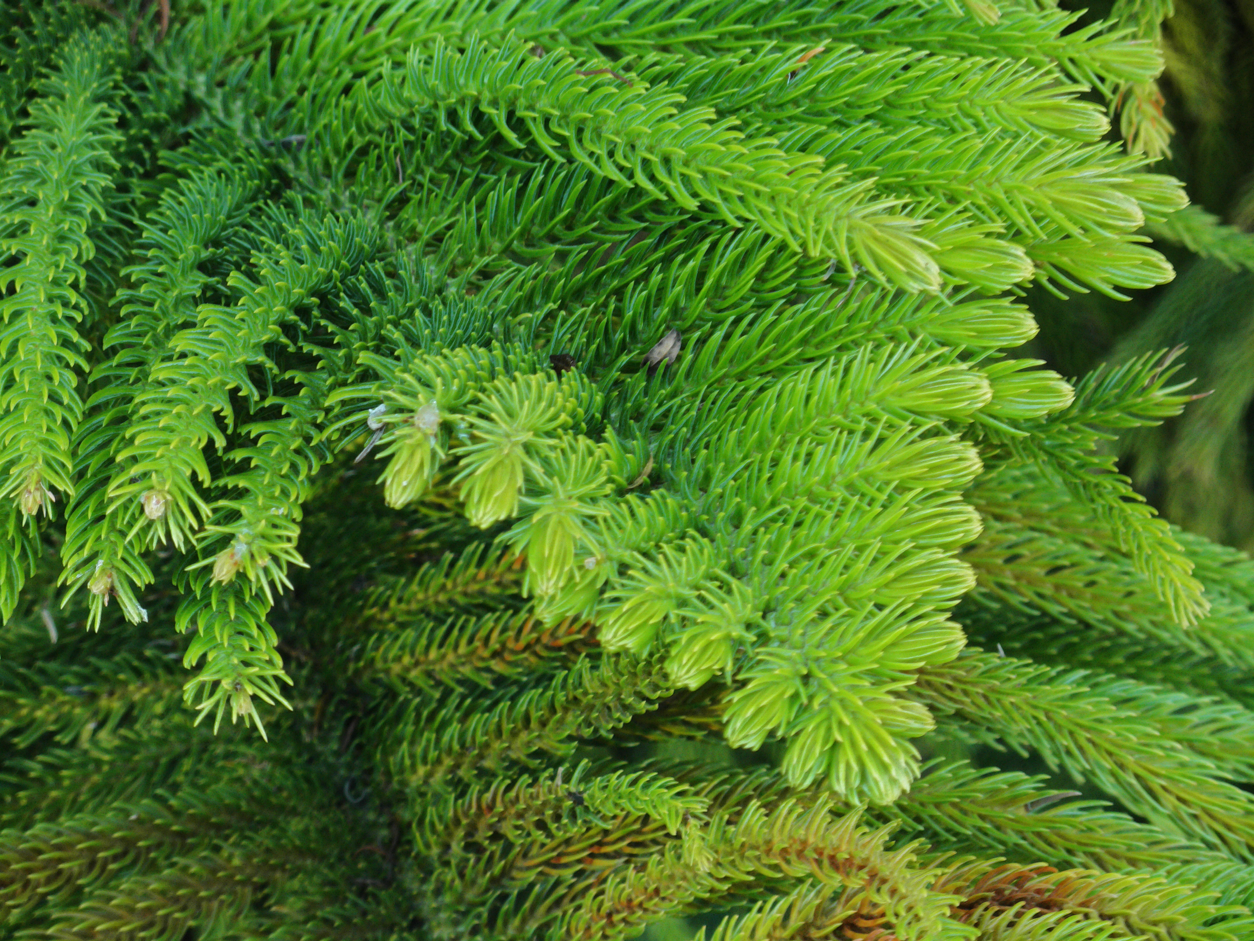 Araucaria heterophylla—Norfolk Island Pine. Photographed in a private garden in Berkeley, CA.